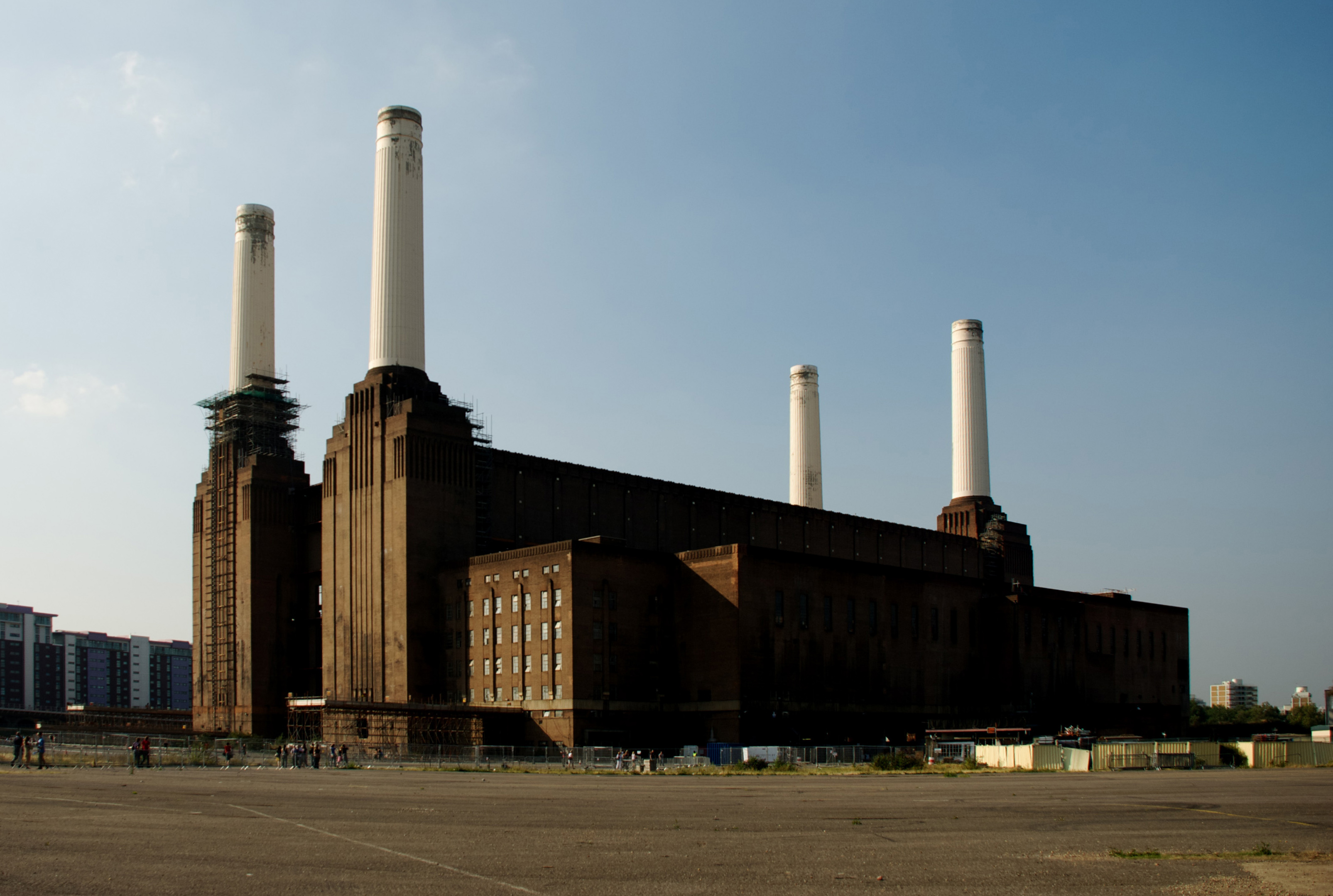 Battersea Power Station in London, was designed in the brick cathedral style. It is now one of few existing examples in England of this once common design style.